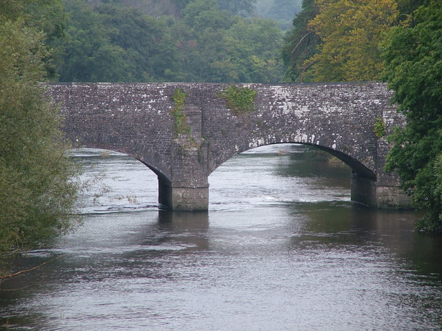 Aqueduct over the Afon Wysg-River Usk at Cefn-Brynich Monmouthshire and Brecon Canal at Cefn-Brynich include the early 19th-century stone aqueduct of four arches and two cutwaters at Cefn Brynich which carries the canal across the river Usk, near the probably 18th-century stone-built Lock Road Bridge with its four massive arches and cutwaters.